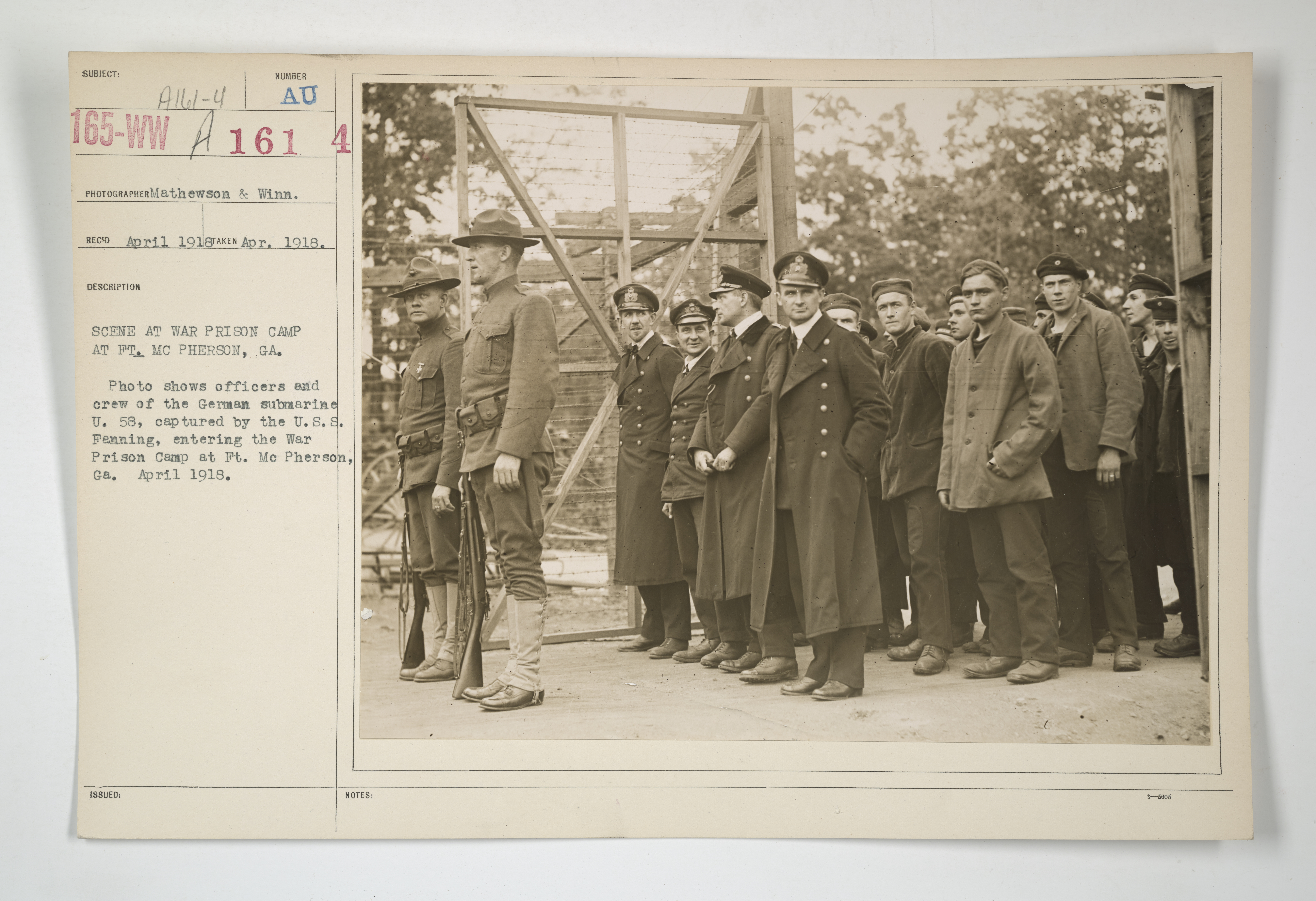 Scope and content: Date Taken: 4/1/1918 Photographer: Mathewson and Winn